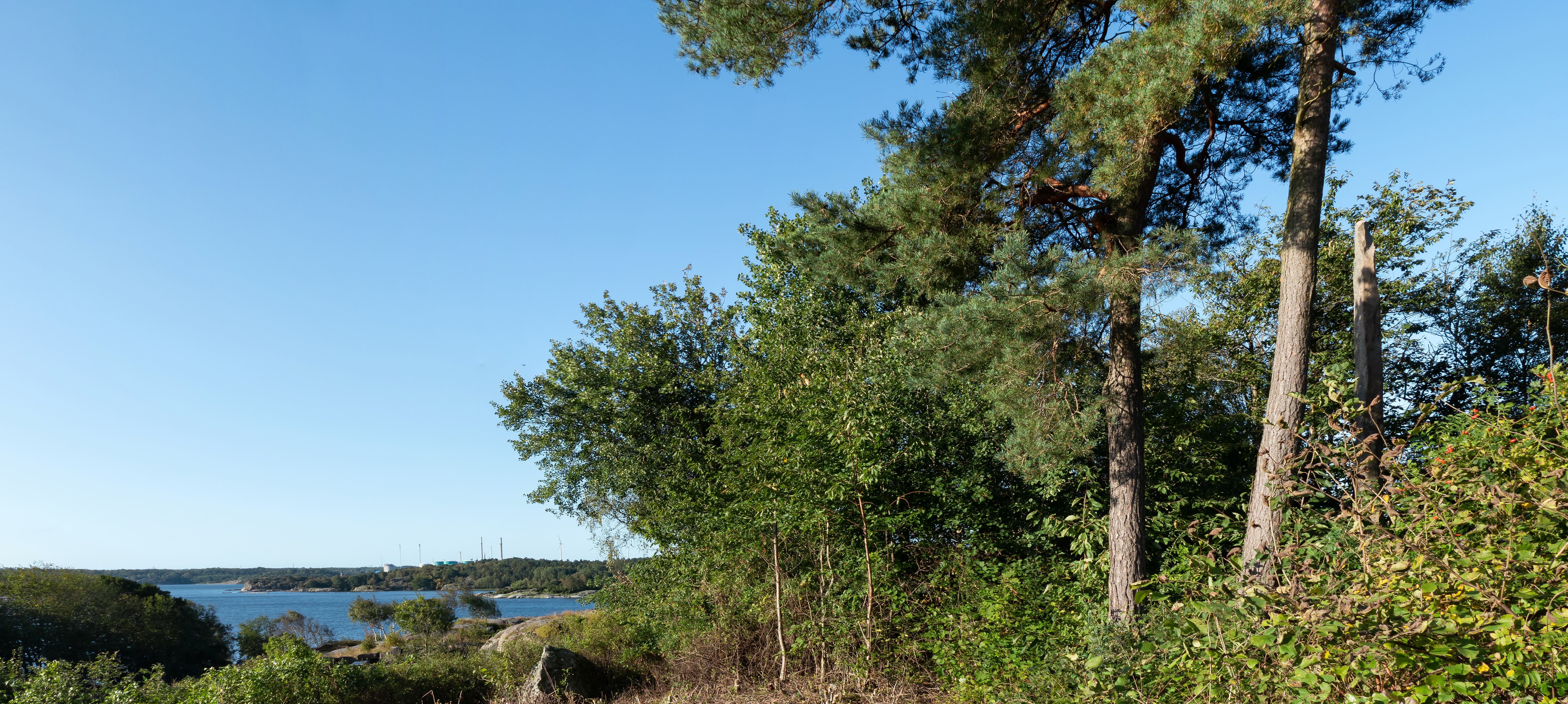 Vindbräcka menhir on a high cliff overlooking Brofjorden with Preemraff Lysekil oil refinery in the background at Holländaröd, Lysekil Municipality, Sweden.The size of the menhir compared to a person